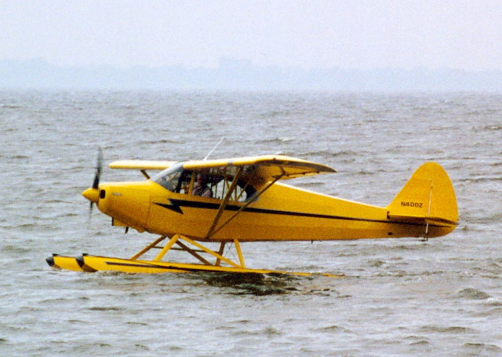 Piper PA-12 on floats